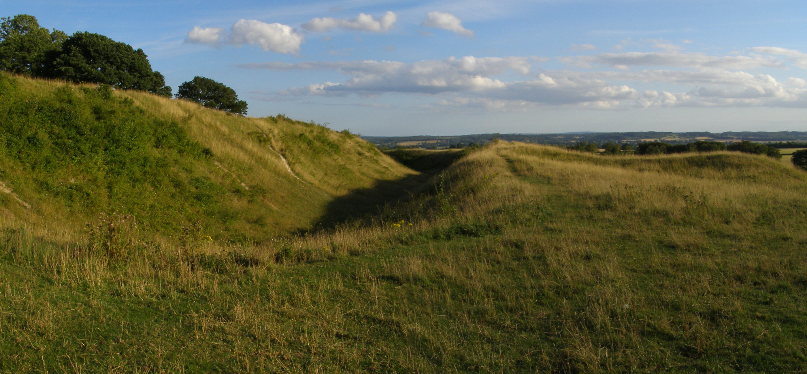 Atlas of Hillforts 3580 Ditches and ramparts at Badbury Rings - looking to the right as you go in through the hillfort entrance.